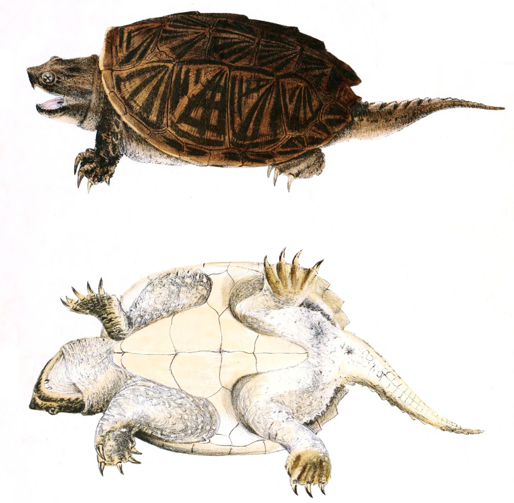 Common Snapping Turtle, Chelydra serpentina, hand-colored lithograph